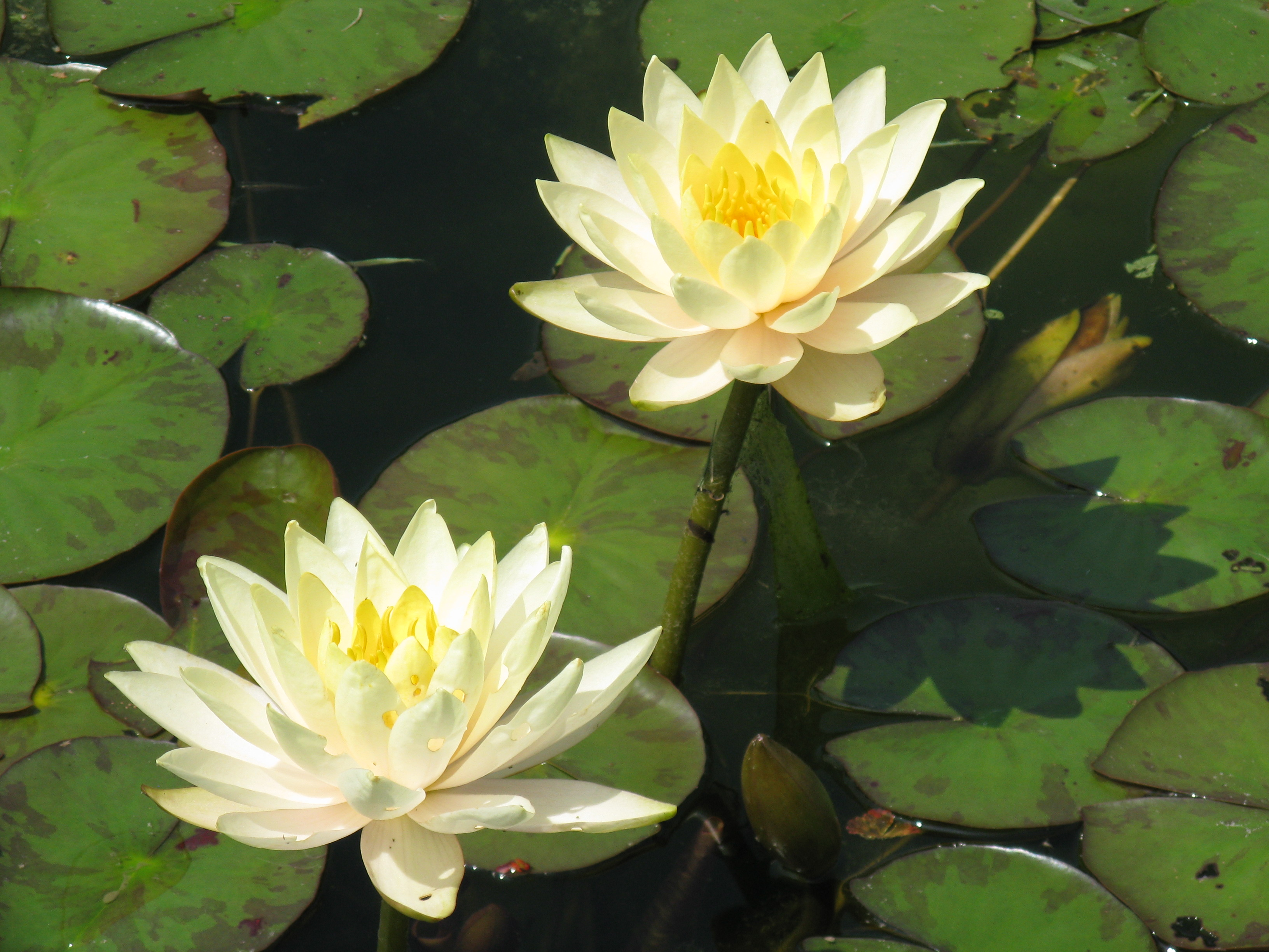 Scientific name Nymphaea 'Innerlight' (Strawn, 1997)